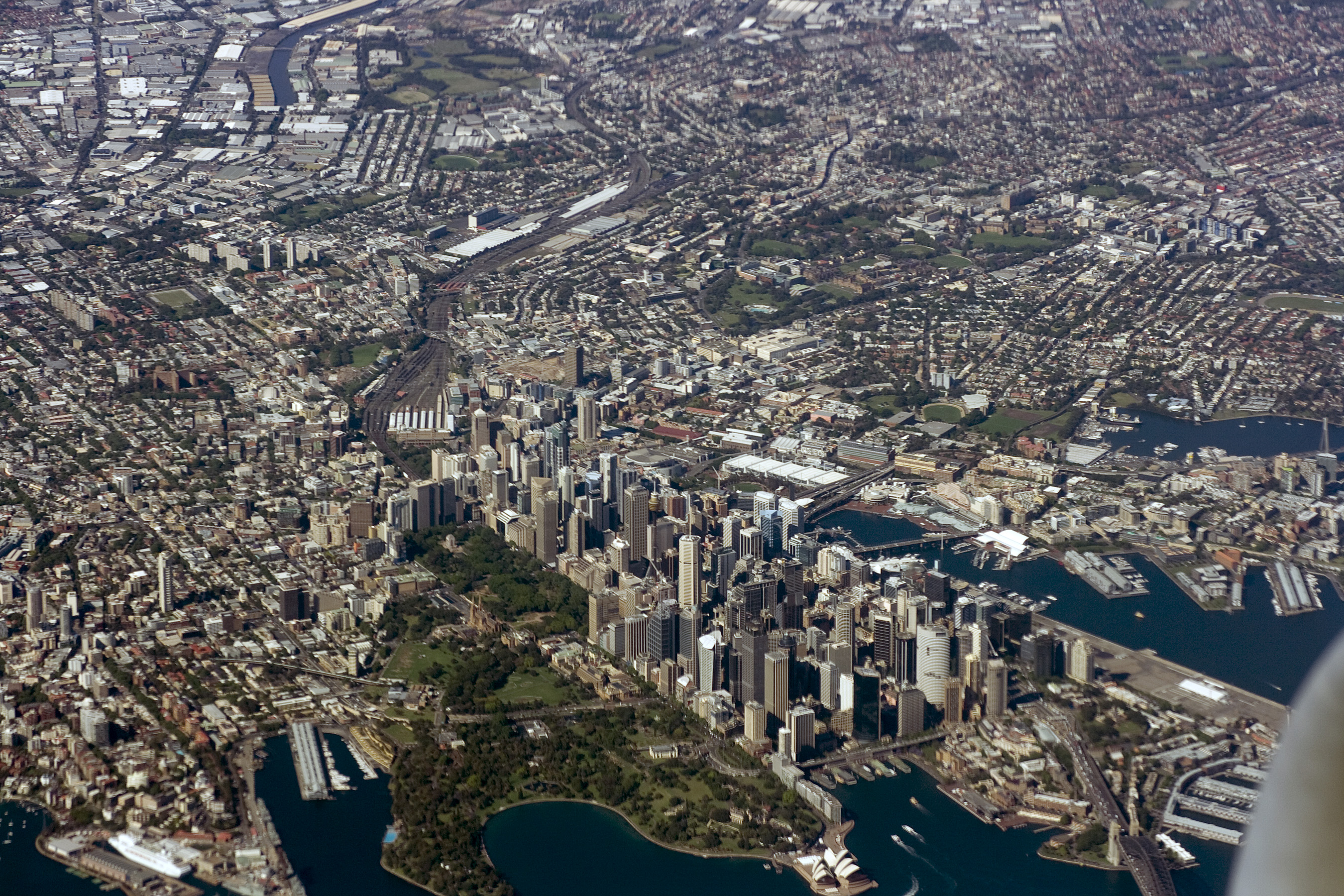 Sydney aerial view